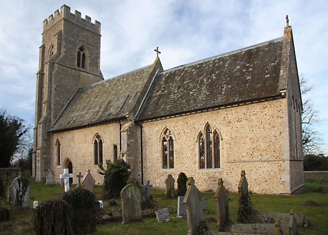 Kennett Church Dedicated to St Nicholas, this church is situated at the end of a track, well away from the village. A detailed history of the church is available at Recent re-facing of the external south wall has been funded by the Landfill Tax Credits of the Waste Recycling Group plc.